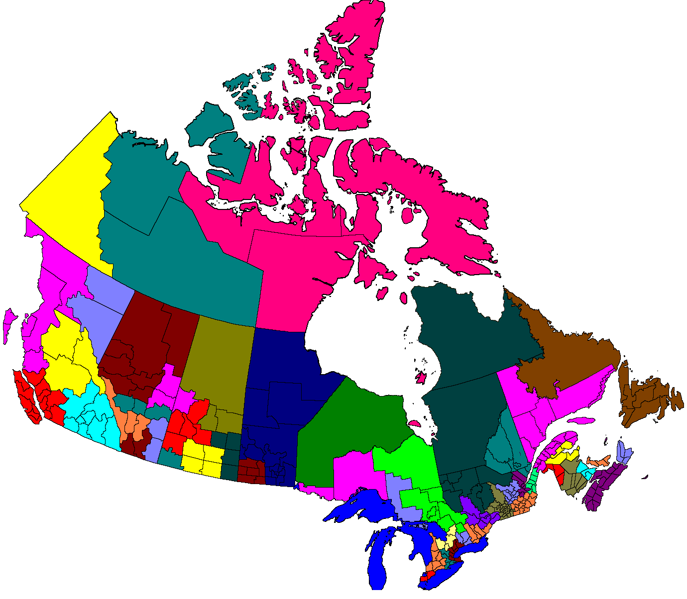 It shows all of the Designated Media Markets, colour-coded, and grouped by counties and cities in Canada. It is much like the American DMA market map, Tvmarkets.gif This is version 1.1, updated to place Lambton County in the London market (as it is not in the Windsor market), and added Lethbridge market. Note: The red in the northwest of New Brunswick (centred around Edmundston, to the west of the yellow-coloured Chaleur Bay market) is part of the Presque Isle/Caribou market.